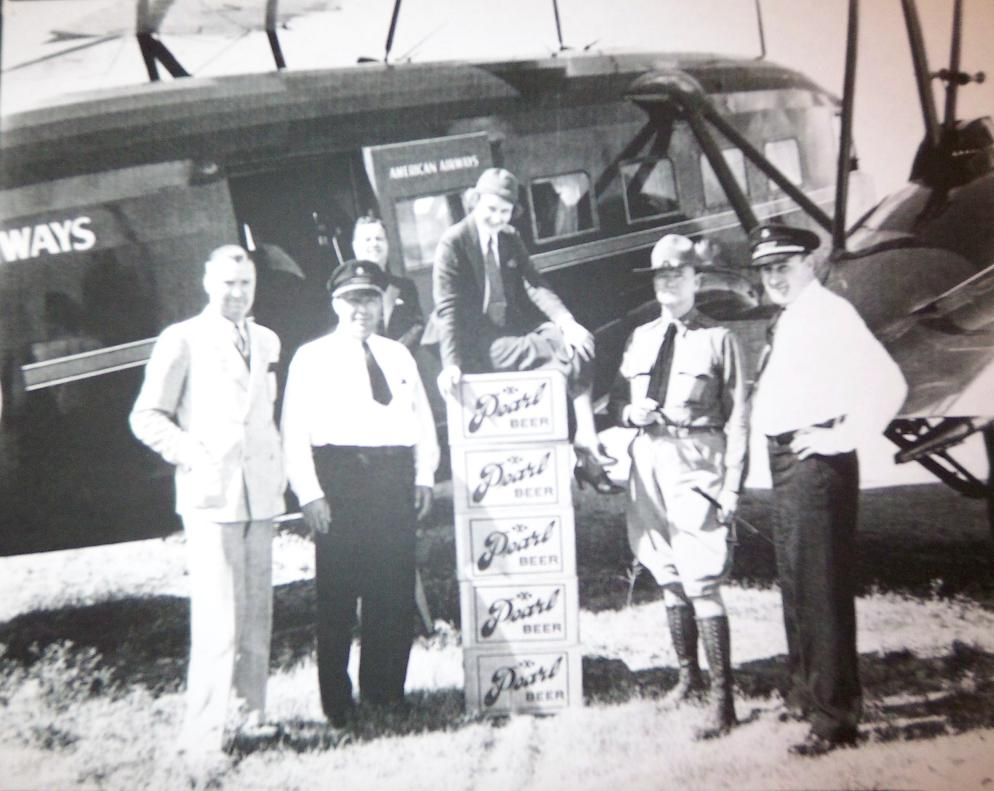 Shortly after the end of Prohibition, the Pearl Brewing Company (then the San Antonio Brewing Association) flew cases of their product all over the country. This is one of the first flights to leave Stenson Field loaded with beer.